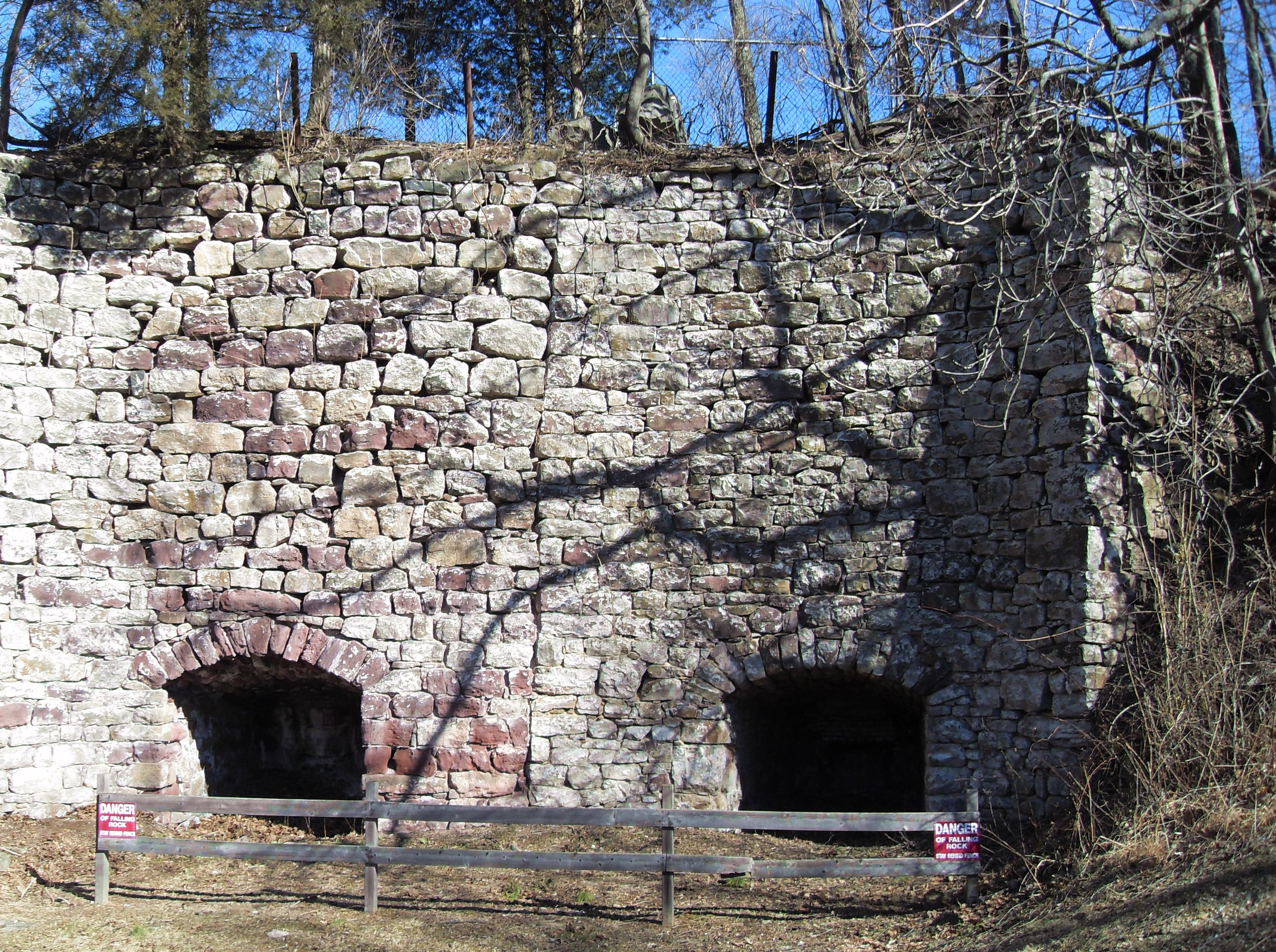 Former lime kiln in Peapack, NJ